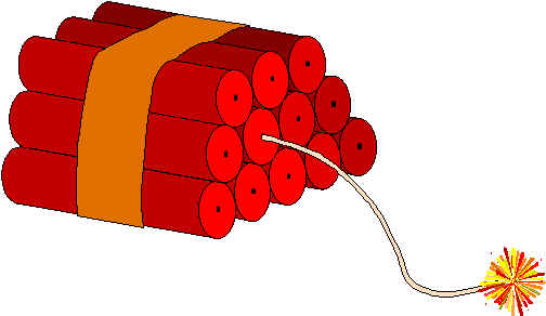 Dynamite clip art which I release into the public domain.